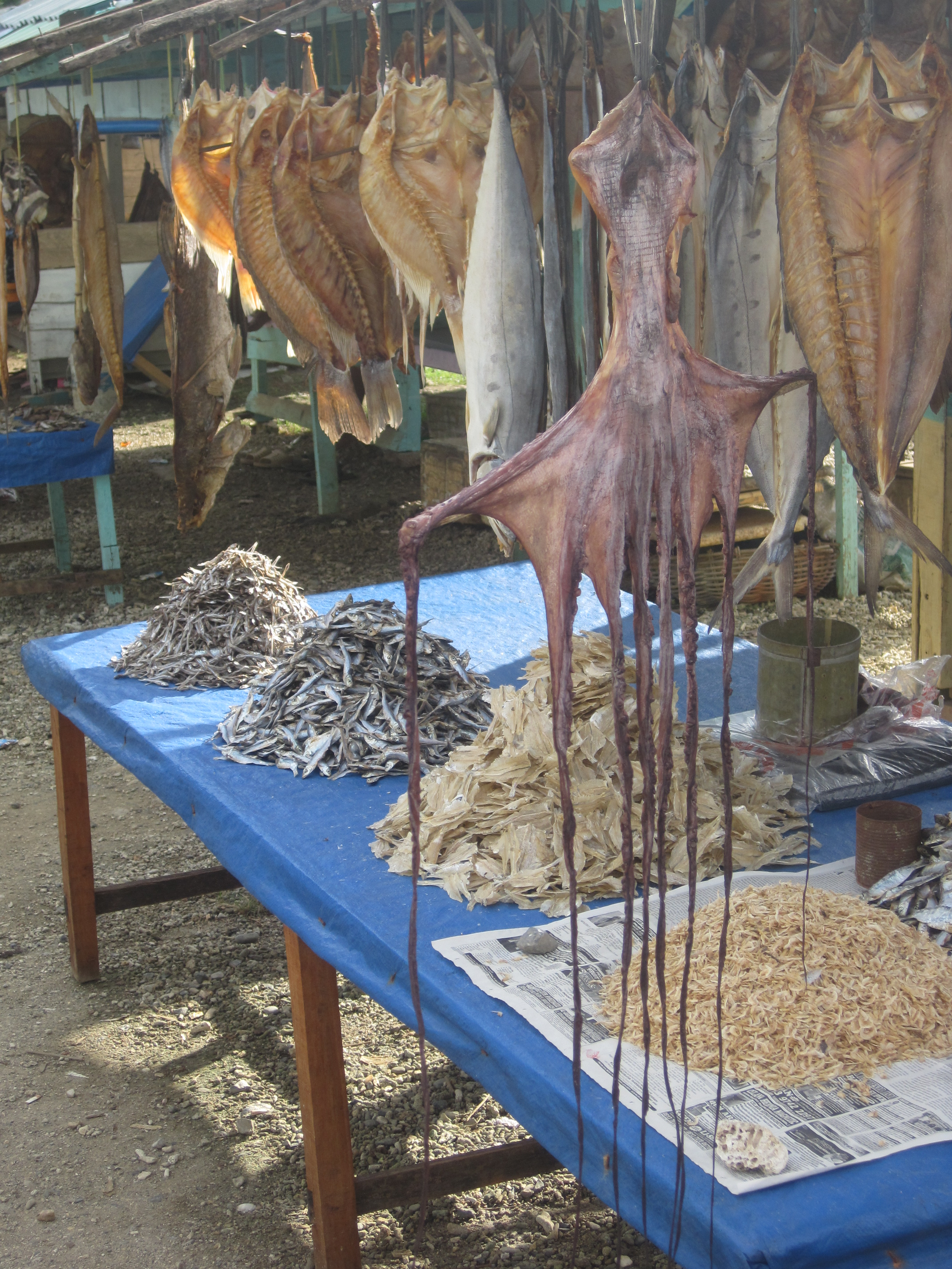 Dry fish stand near Banda Aceh